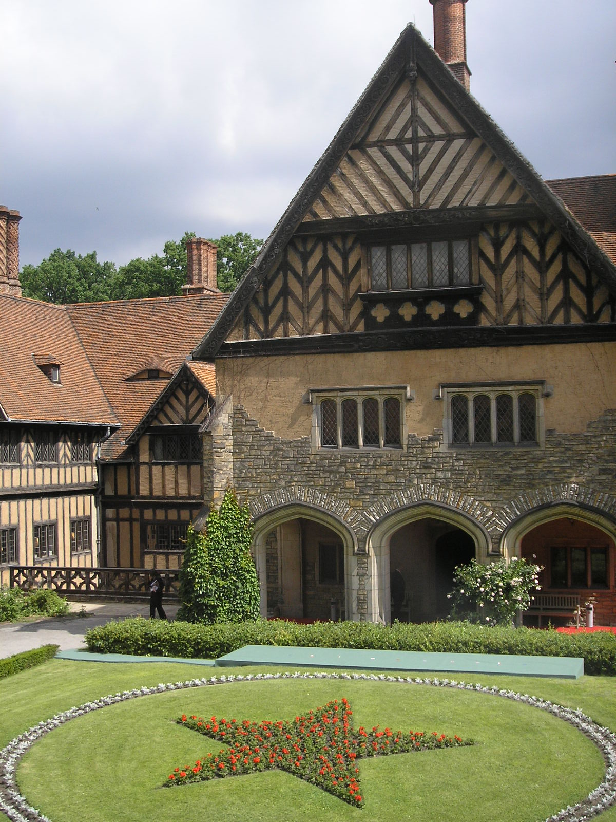 Inner courtyard of Schloss Cecilienhof in Potsdam.